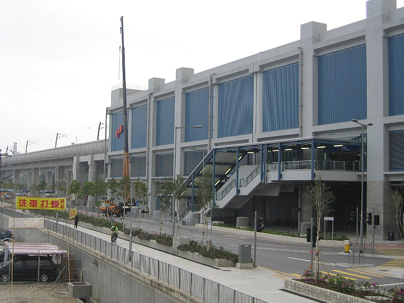 Out looking of Yuen Long West Rail Station ©Tom Wong User:58siukin Wong,2004